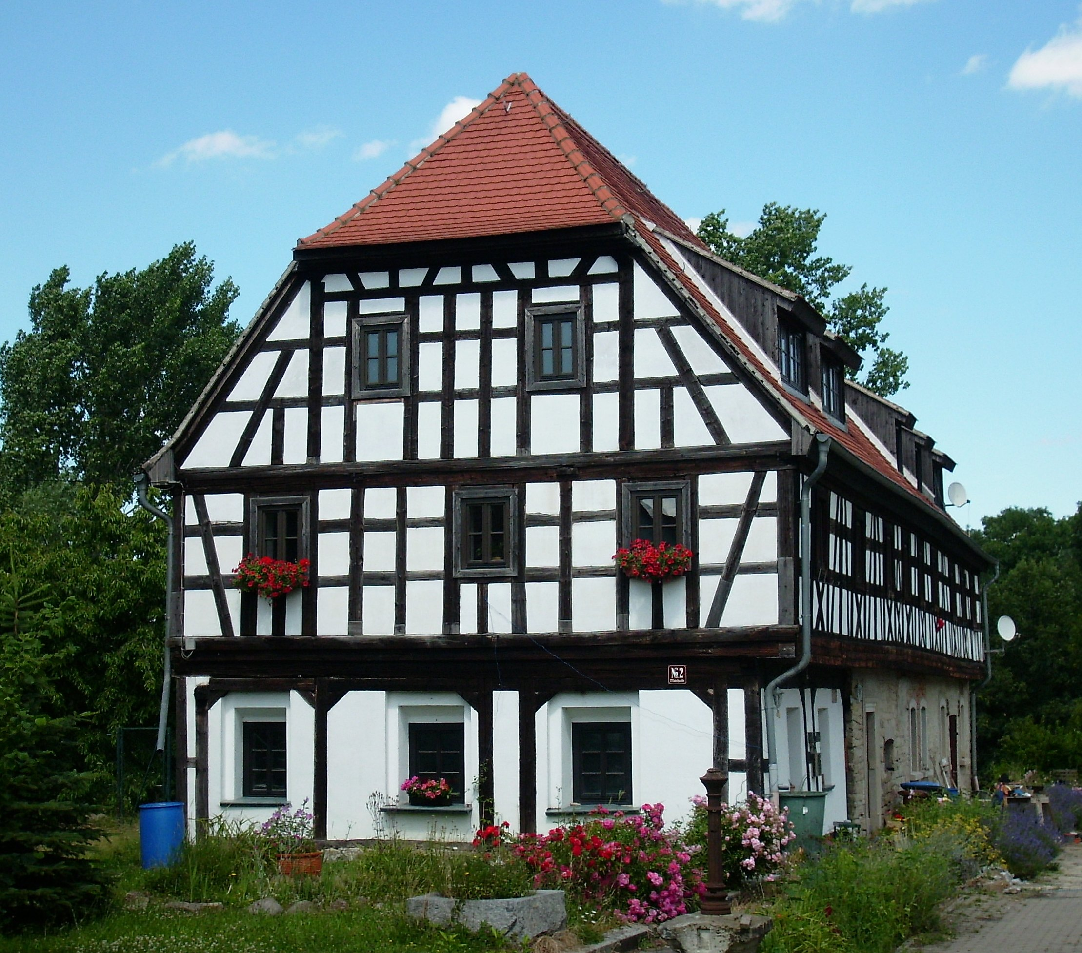 Half-timbered house in Krimmitzschen (Elsteraue, district of Burgenlandkreis, Saxony-Anhalt)